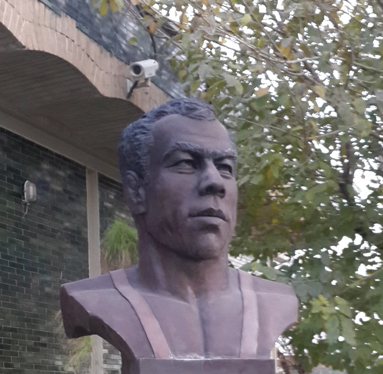 Takhti statute at Takhti football stadium, Tehran